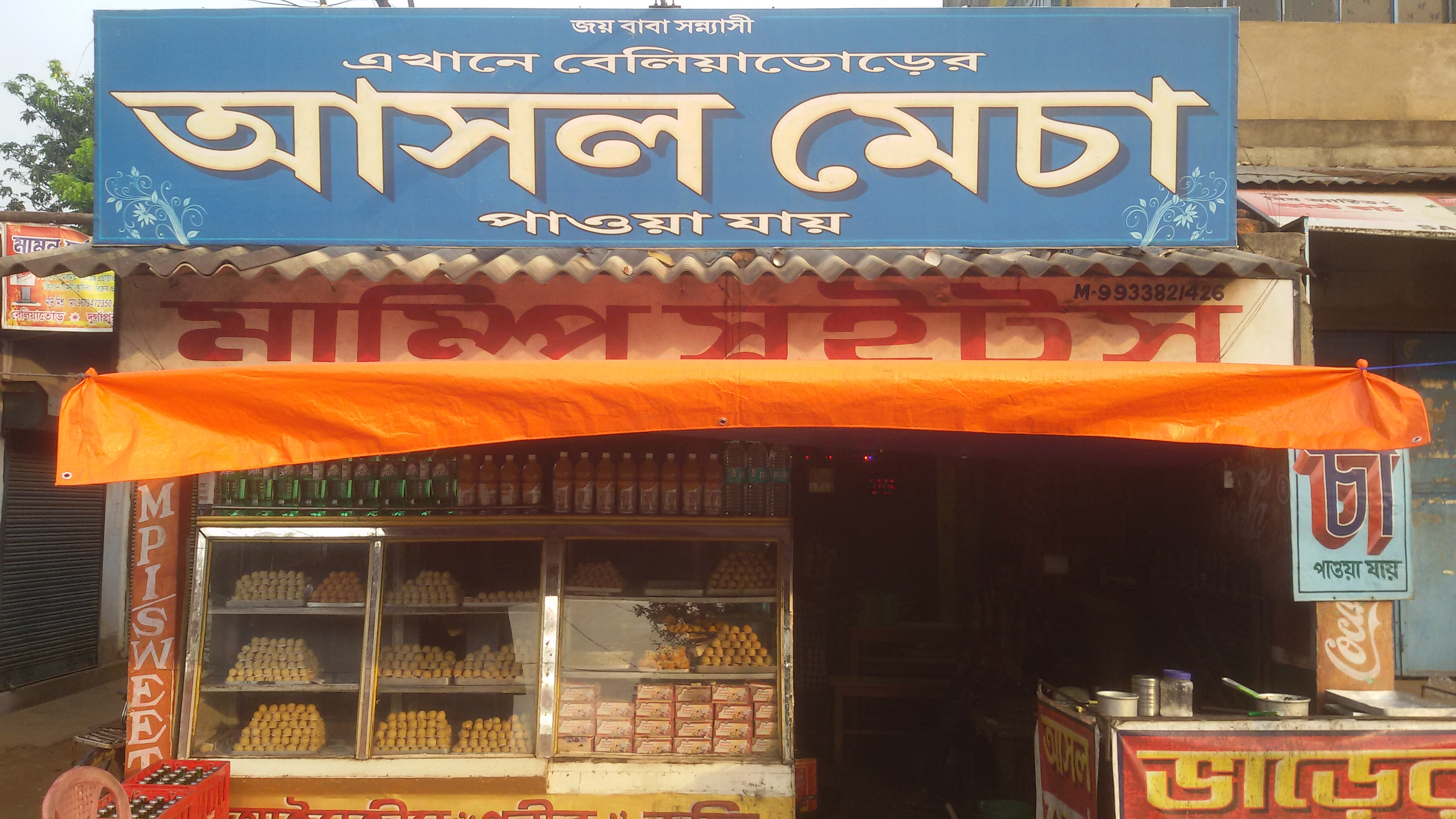 Image of a sweetmeat shop in Beliatore.